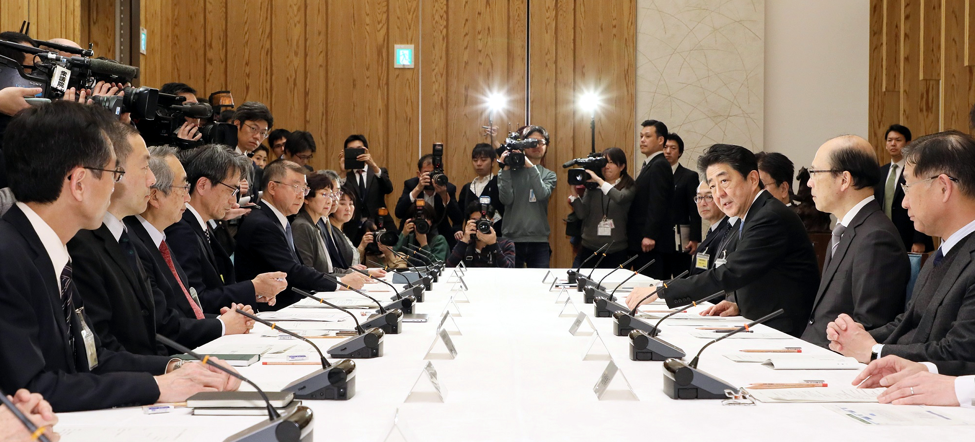 Takaji Wakita, Chairman of the Novel Coronavirus Expert Meeting, Novel Coronavirus Response Headquarters, Shigeru Omi, Vice-Chairman of the Novel Coronavirus Expert Meeting, Novel Coronavirus Response Headquarters, Nobuhiko Okabe, Satoshi Kamayachi, Akihiko Kawana and Motoi Suzuki, Members of the Novel Coronavirus Expert Meeting, Novel Coronavirus Response Headquarters, attended a meeting of the Novel Coronavirus Expert Meeting, Novel Coronavirus Response Headquarters with Shinzō Abe, Prime Minister, Katsunobu Katō, Minister of Health, Labour and Welfare, and Yoshiki Okita, Deputy Chief Cabinet Secretary for Crisis Management, at the Prime Minister's Official Residence in Chiyoda Ward, Tōkyō Metropolis on February 16, 2020.